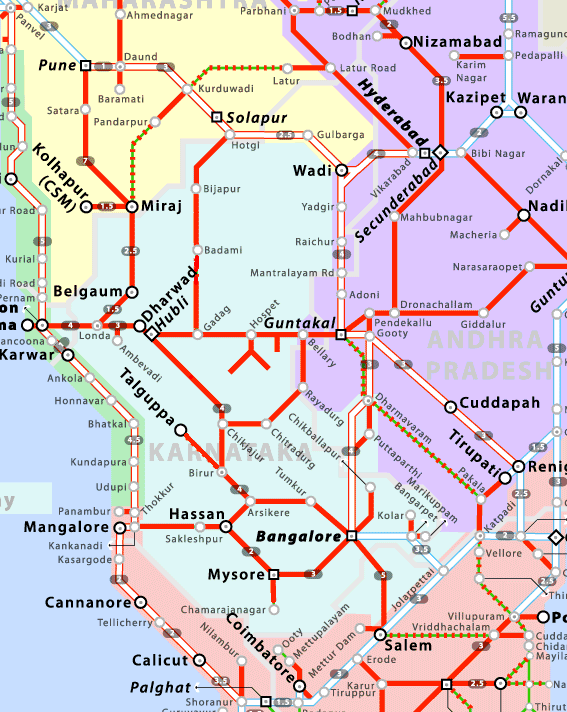 south western railway schematic